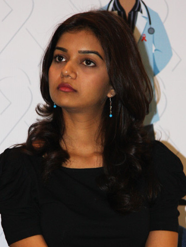 Swati at the launch of TeachAIDS in Hyderabad, India in 2010